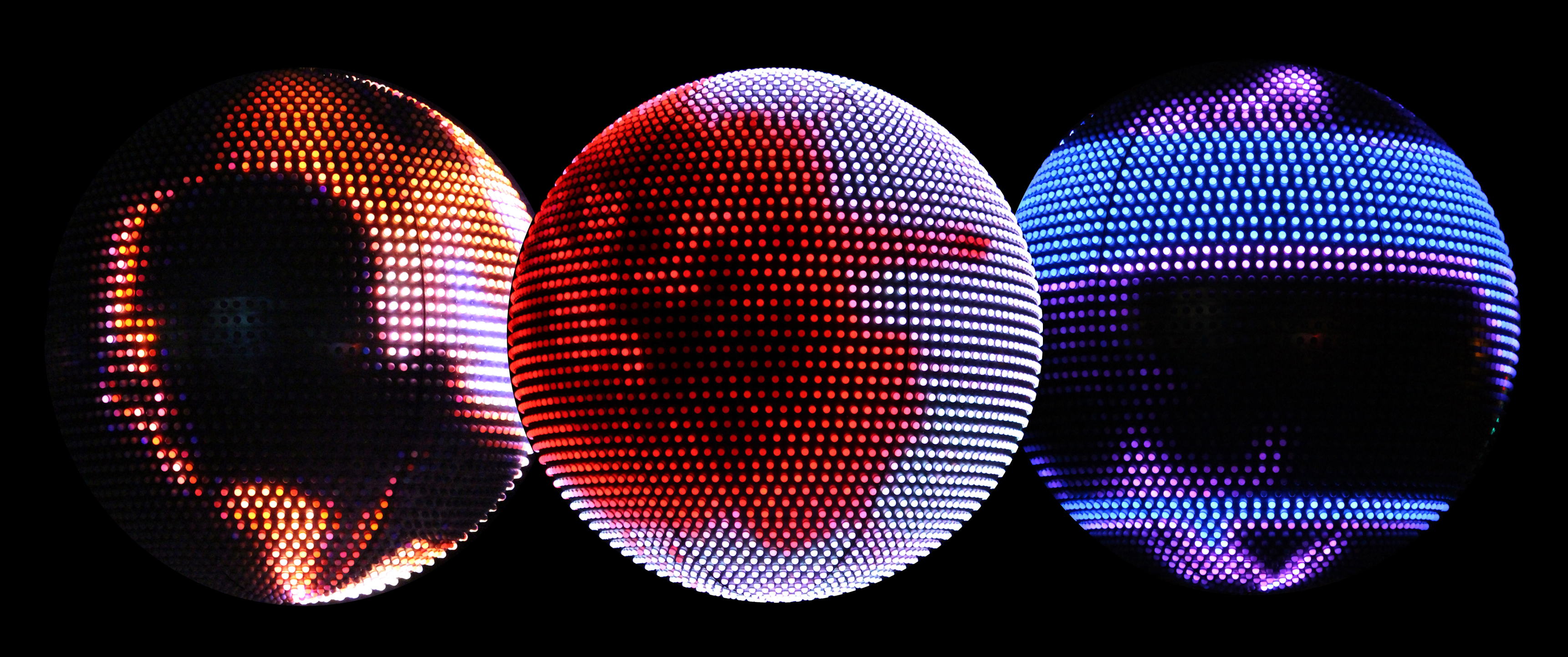 ‘The Walk’ is a 2.5-meter diameter sphere comprising 5000 pixels with a total of 35,000 LED’s. The sphere is both an object and a spherical screen showing a 7.5 minute long video loop.